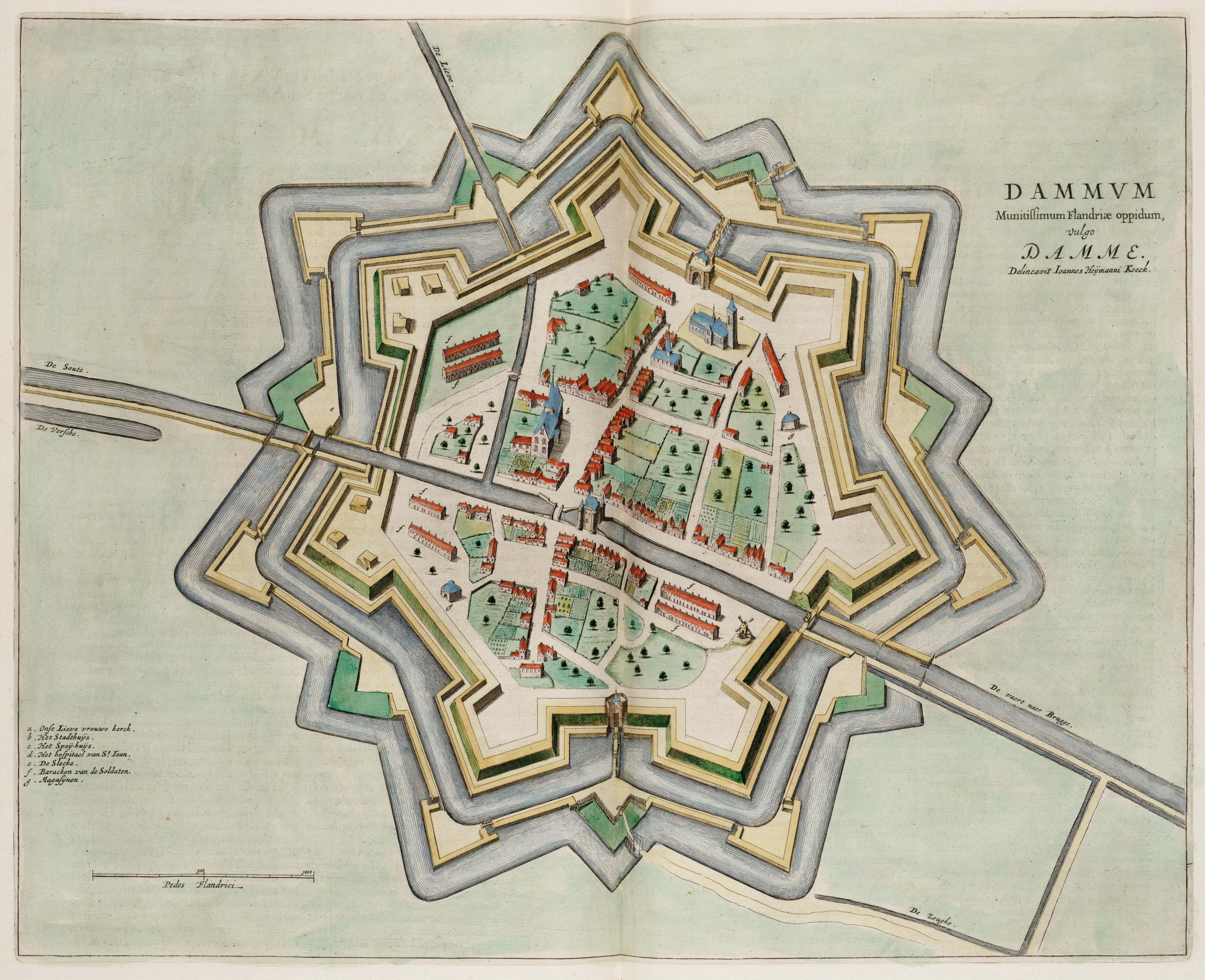 Damme, Belgium.